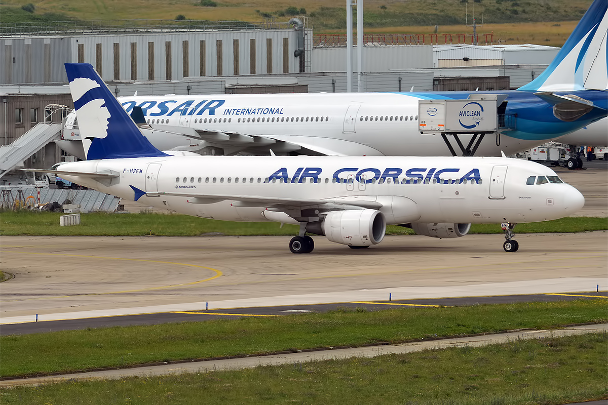 Air Corsica, F-HZFM, Airbus A320-216